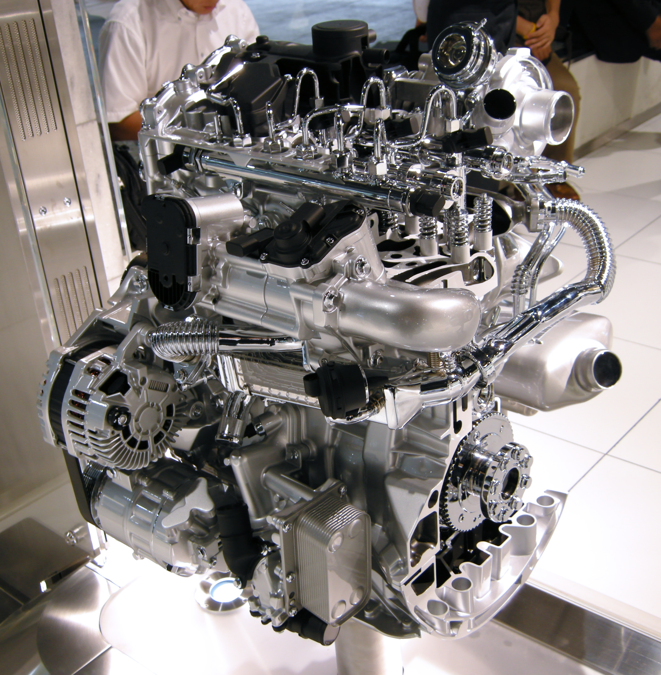 A cutaway photograph of Nissan M9R 2.0L Straight-4 DOHC Common rail Diesel Engine installed in 2nd genaration Nissan X-trail